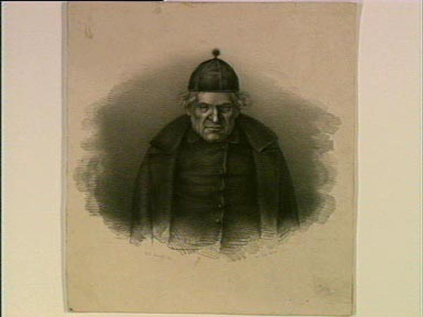 Portrait of old preacher.